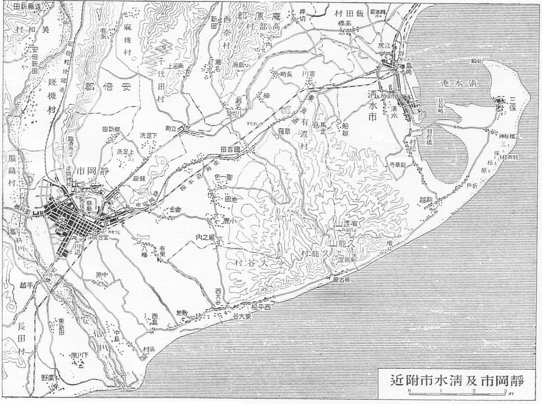 Shizuoka map circa 1930